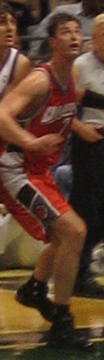 Primož Brezec in 2006